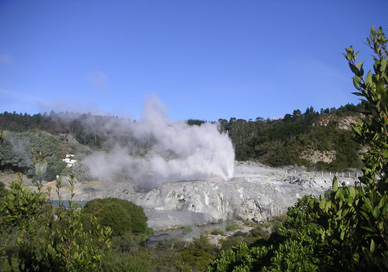 Whakarewarewa Thermal Valley in Rotorua